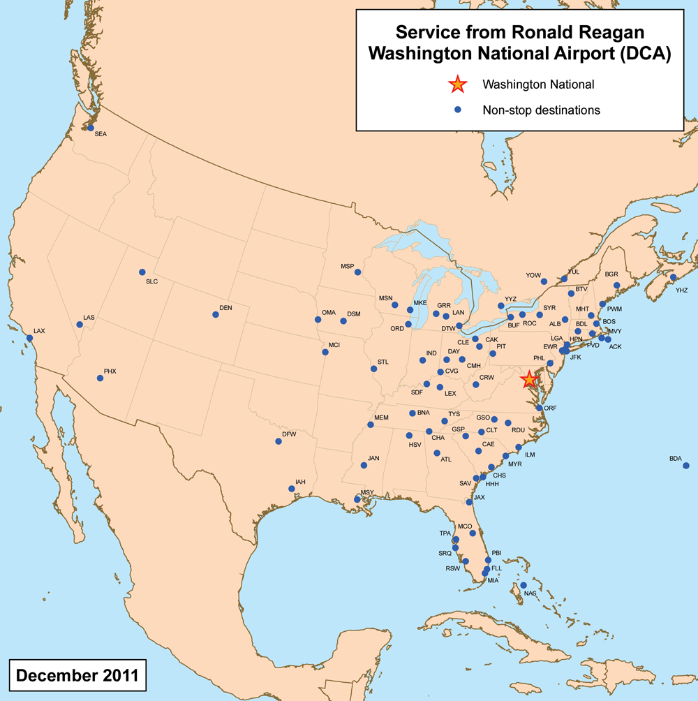 This is a route map for Ronald Reagan Washington National Airport as of May 2009. Map is an Azimuthal equidistant projection centered on the airport so straight lines from Washington are along great circle routes. Source.